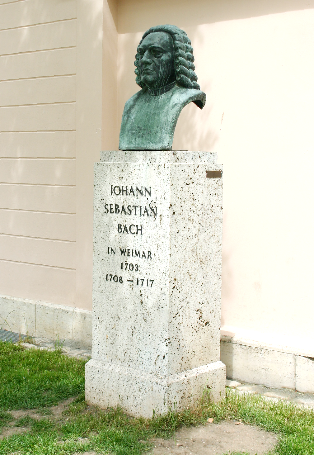 Bach memorial in Weimar opposite his living house